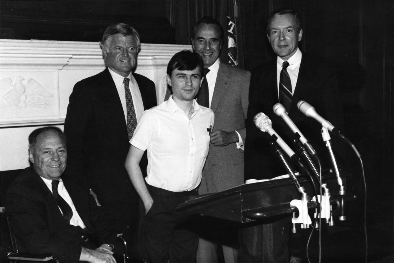 Zaslavsky, Ilya; Kennedy, Edward Moore, 1932-2009; Dole, Robert J., 1923-; Zaslavsky is directly behind the podium with the senators behind and around him, Notes: Discussing disability programs, inscriptions: U.S. Senate, Sep 7, 1989